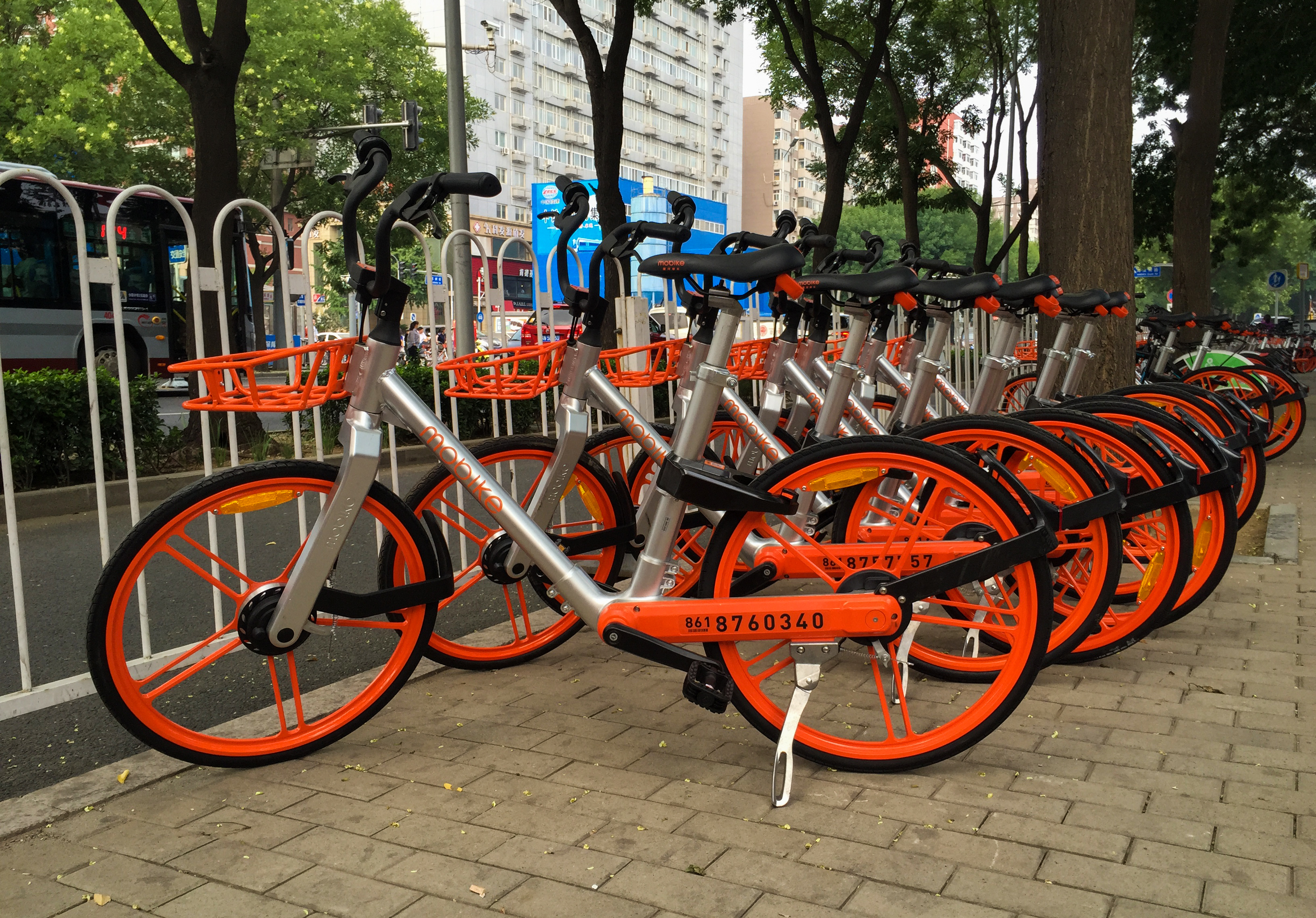 Mobike NG? Said to be lighter than previous models.